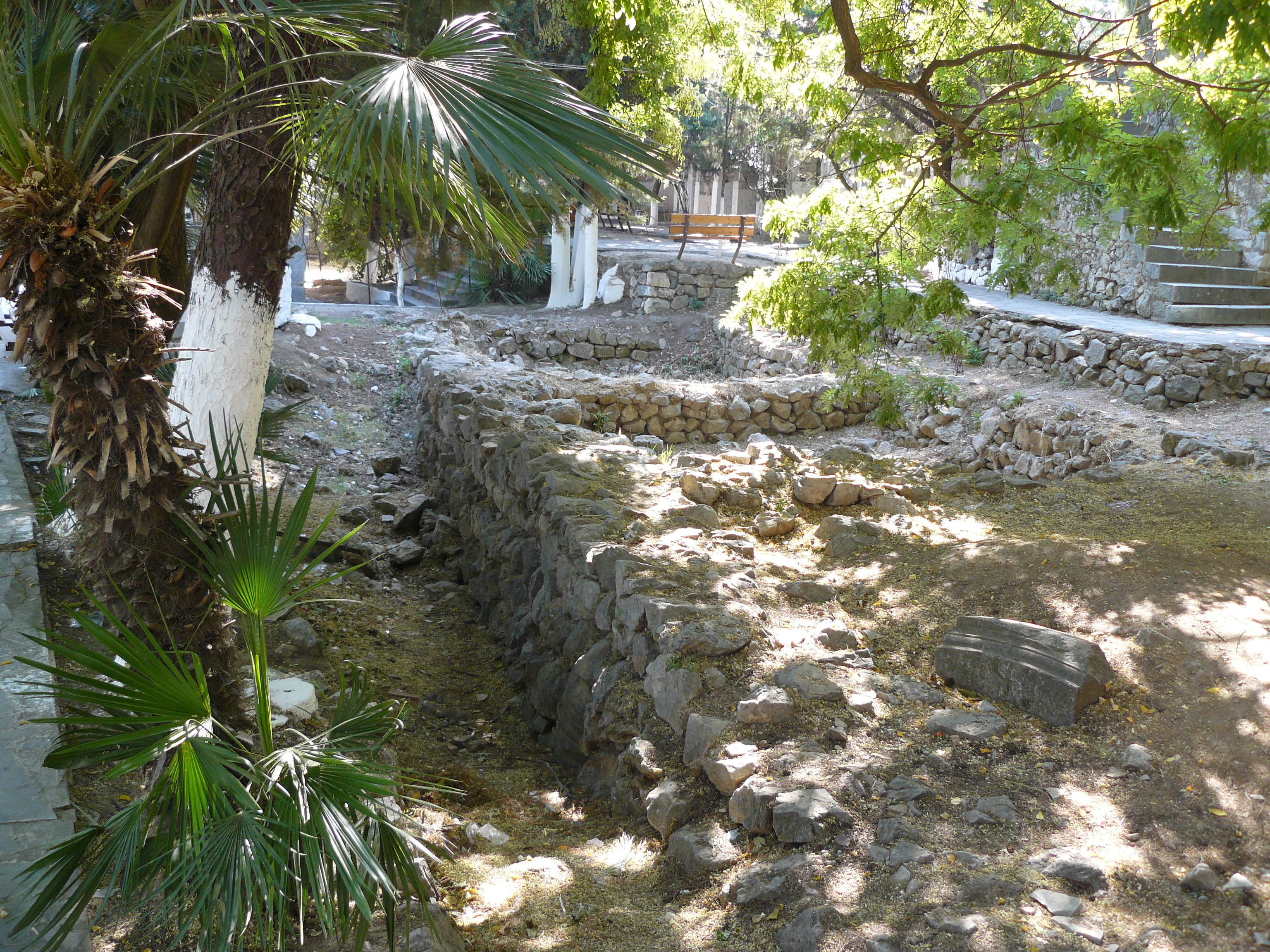 Orchomenos, Boeotia, Greece: Monastery Panagia Skripou, excavations in the court.